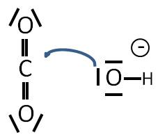 Schematic representation of the Lewis acid-base reaction of CO2 and OH−